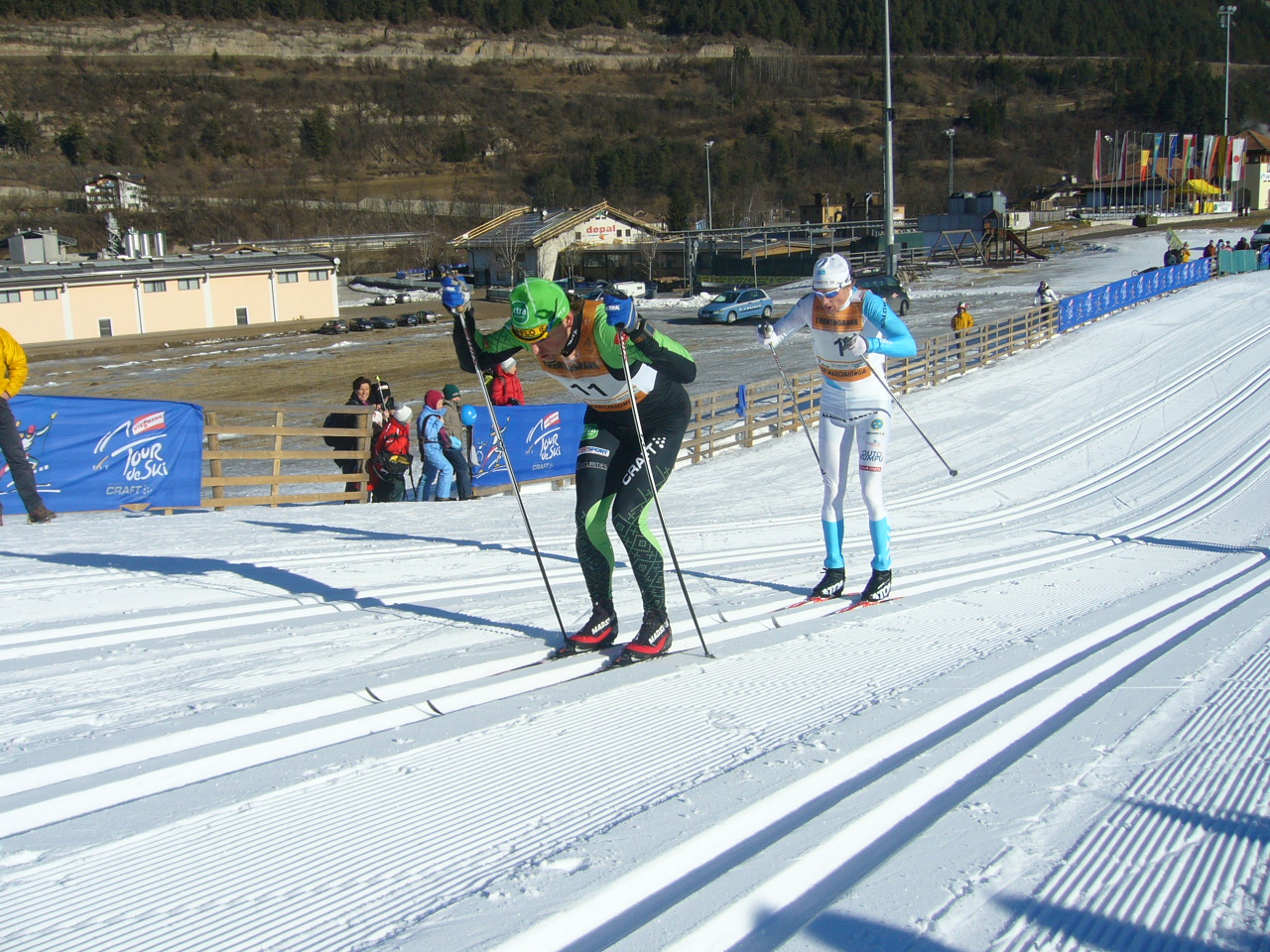 Jerry Ahrlin (No. 11, in black and green) followed by Oskar Svärd (No. 1, in white and blue) at the Marcialonga 2011.